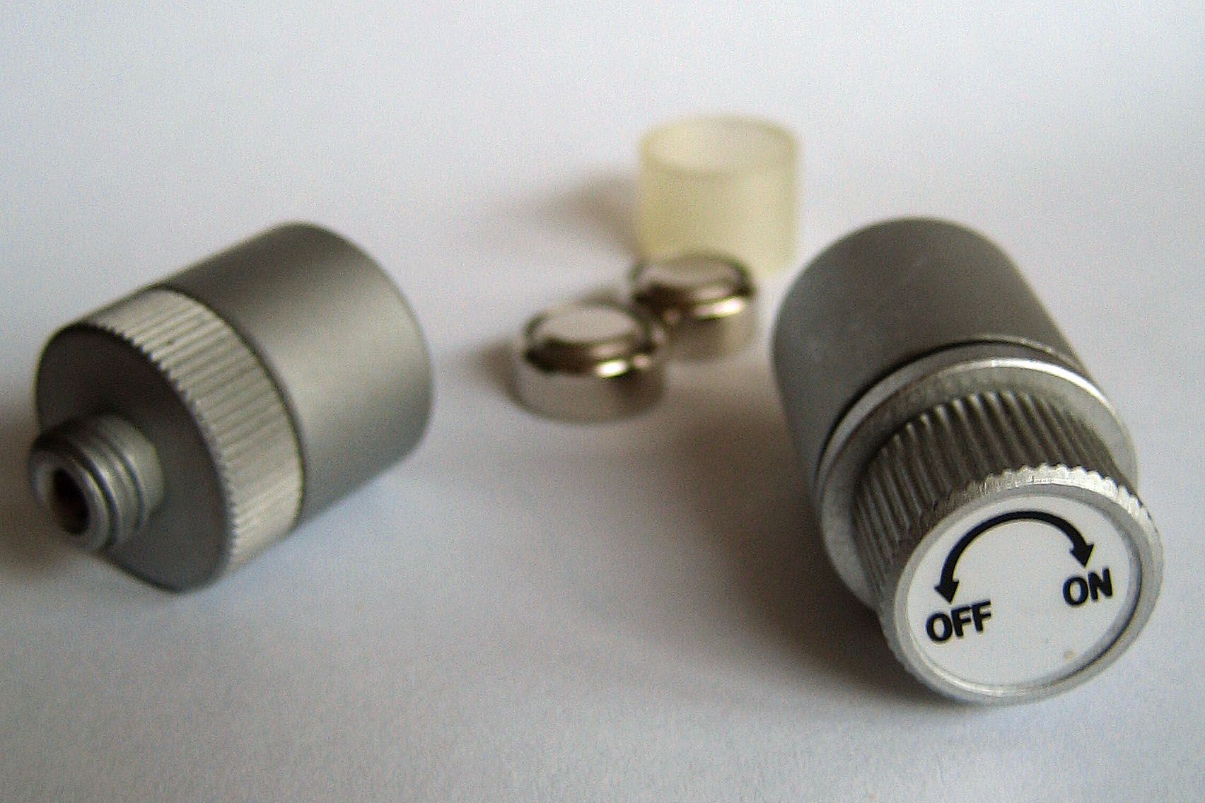 LED flashlight to enlighten a crosshair eyepeace, disassembled